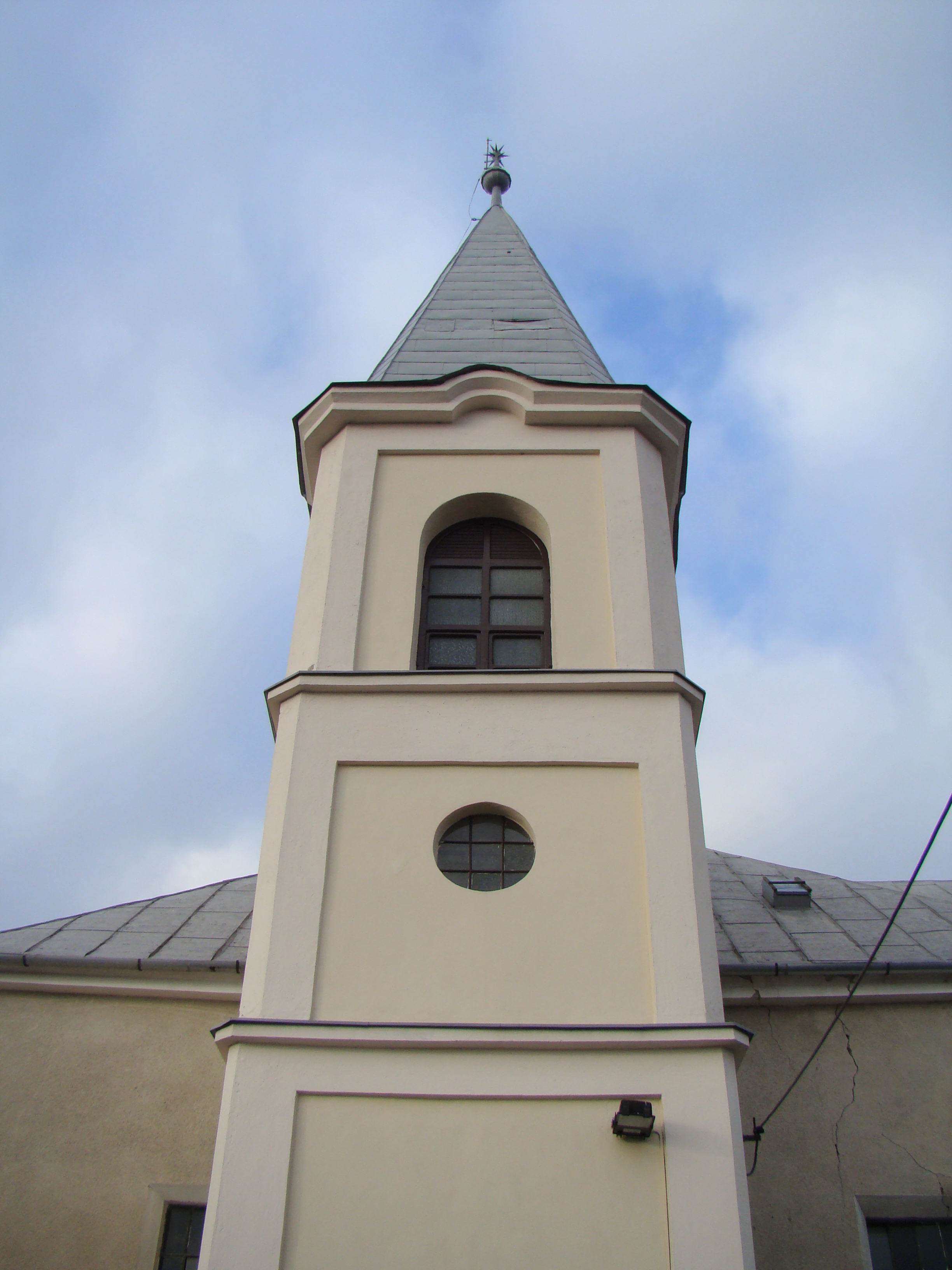 Reformed church in Parhida (Pelbárthida), Bihor county, Romania